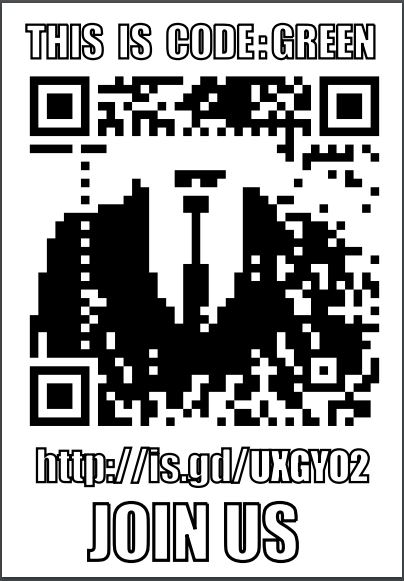 This qr code is used by code green to spread awareness to the people about their work and inviting people to join in various activities (Actual use is for a article on dark web)